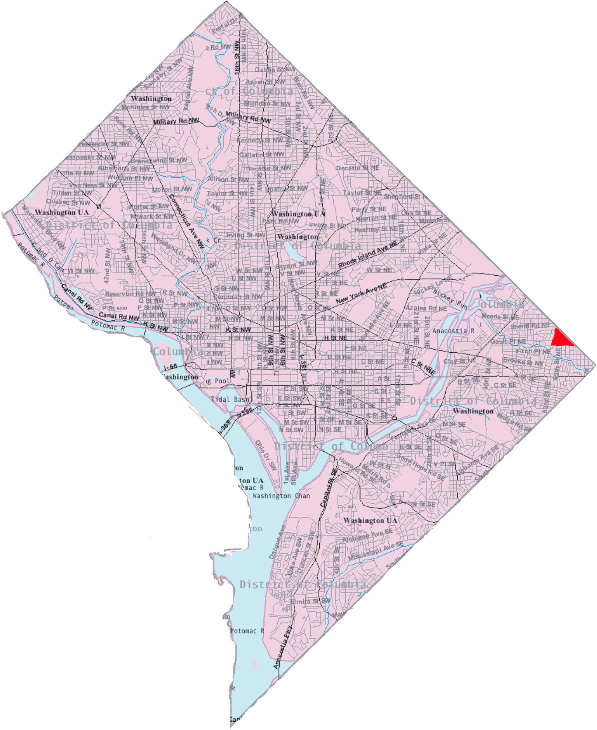 This image is a modified version of a self-generated reference map from the U.S. Census Bureau's American Factfinder at by Wikipedia user Msclguru.